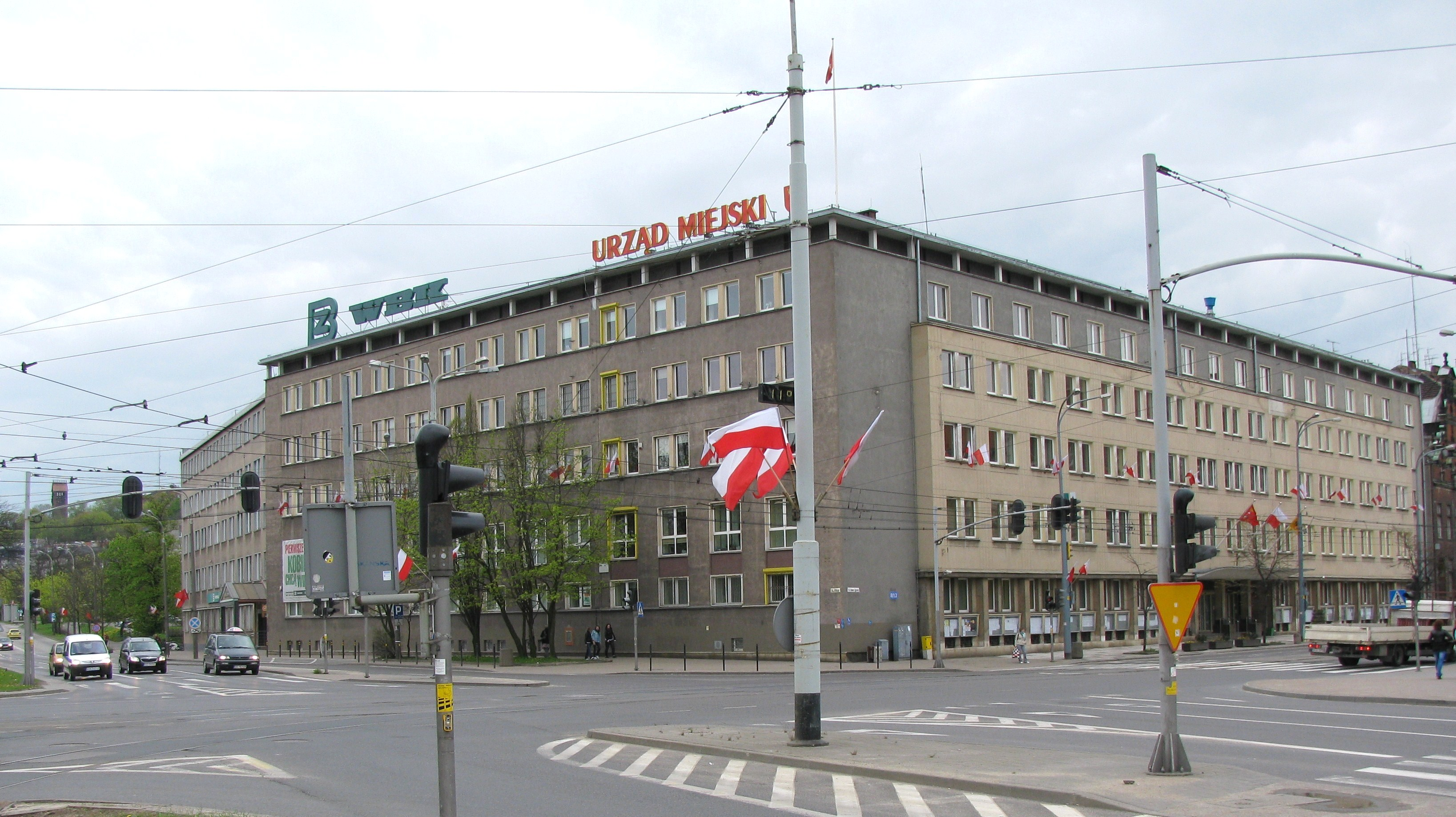 A place where the Senate of the Free City of Danzig stood. Now the present Gdańsk Town Hall and the street on the left.